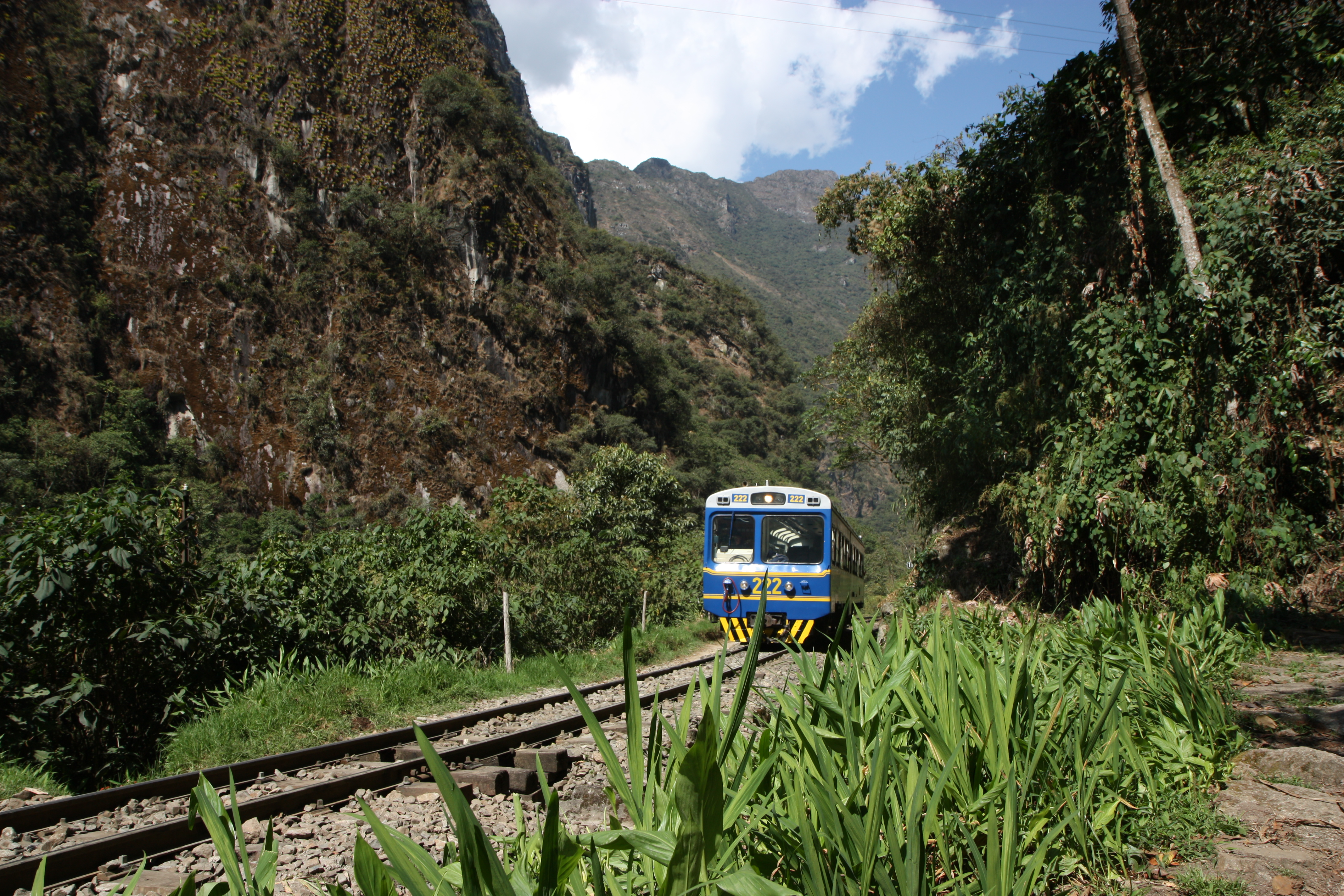 PeruRail diesel Railcar